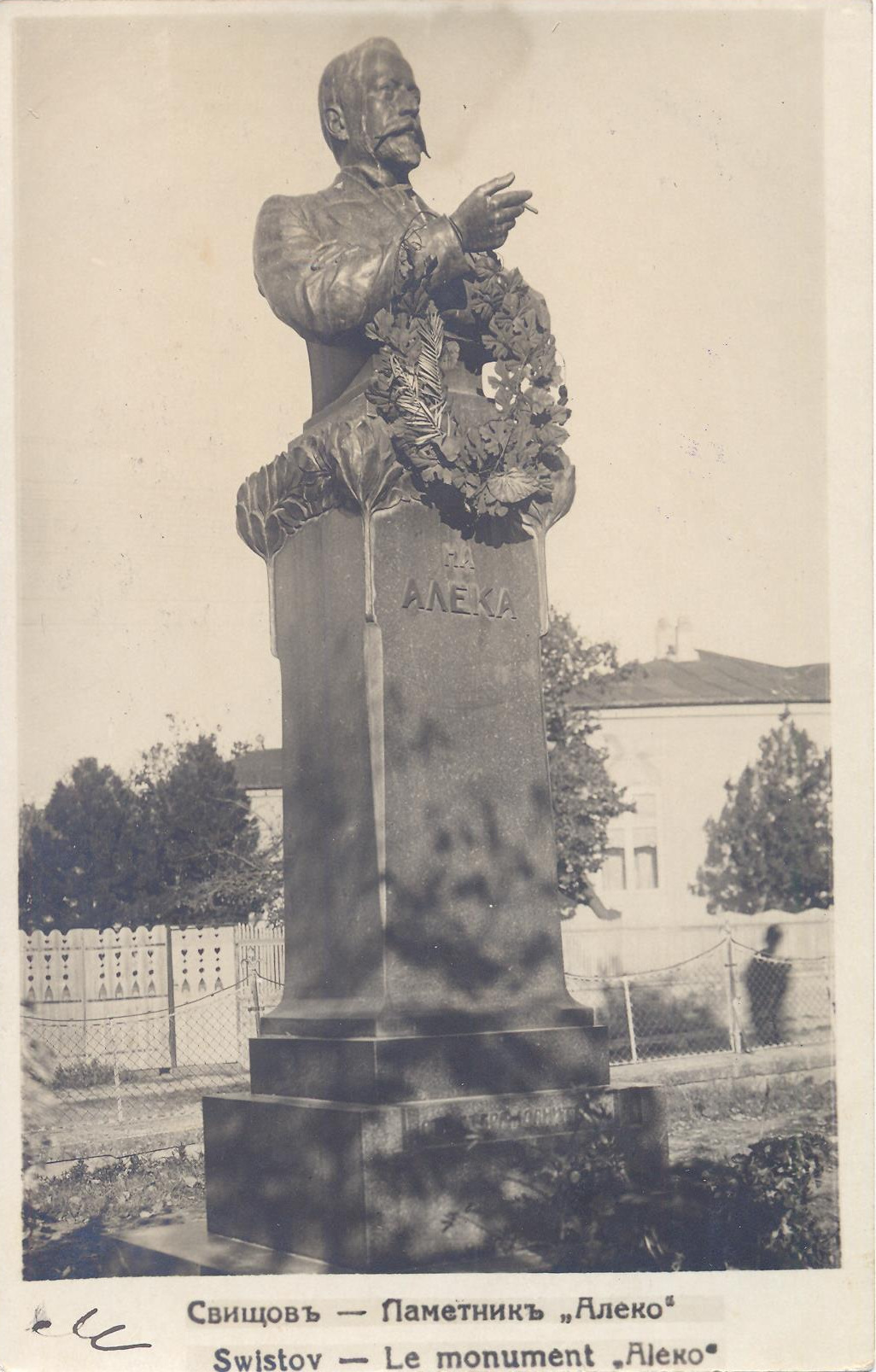 Postcard from Svishtov, Bulgaria - Aleko Konstantinov Monument